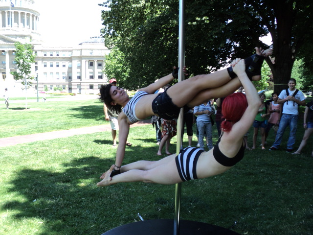 A demonstration of pole dancing techniques in Capitol Park, Boise, Idaho, by members of Ophidia Studio on a hot summer day.